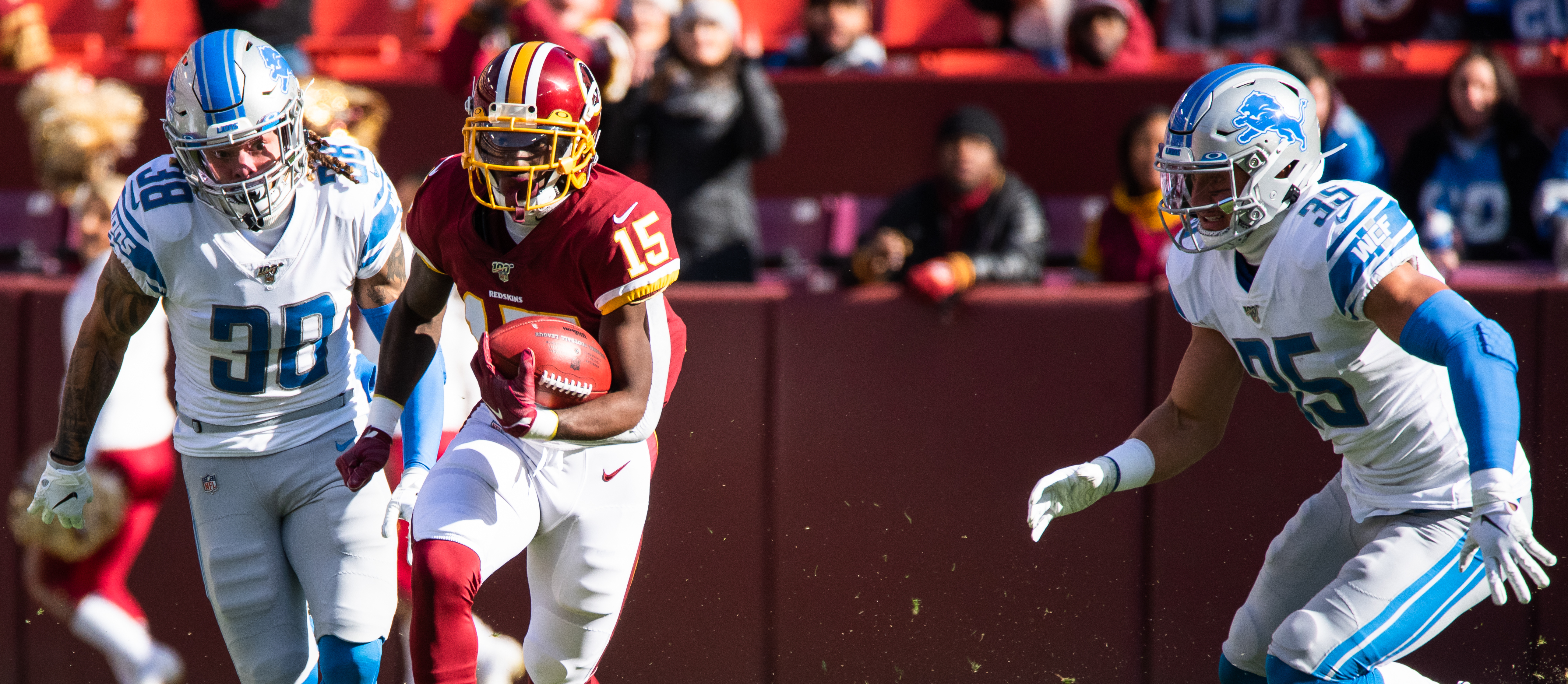 In 2019